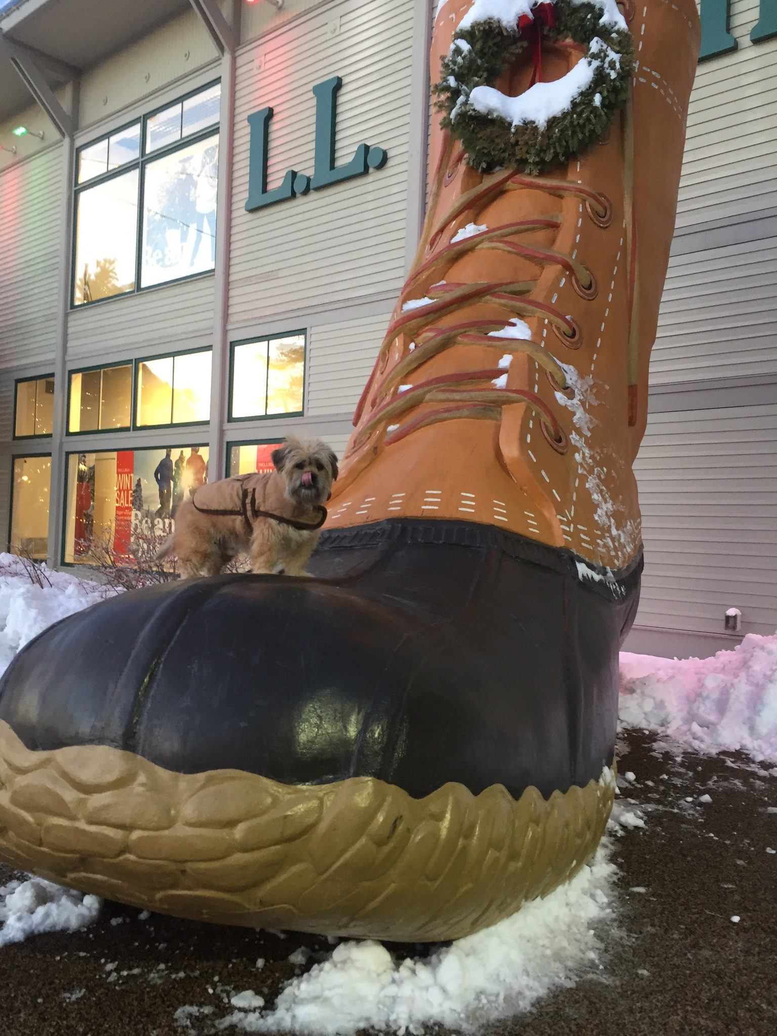 Iconic L.L. Bean boot sculpture in Freeport, Maine.